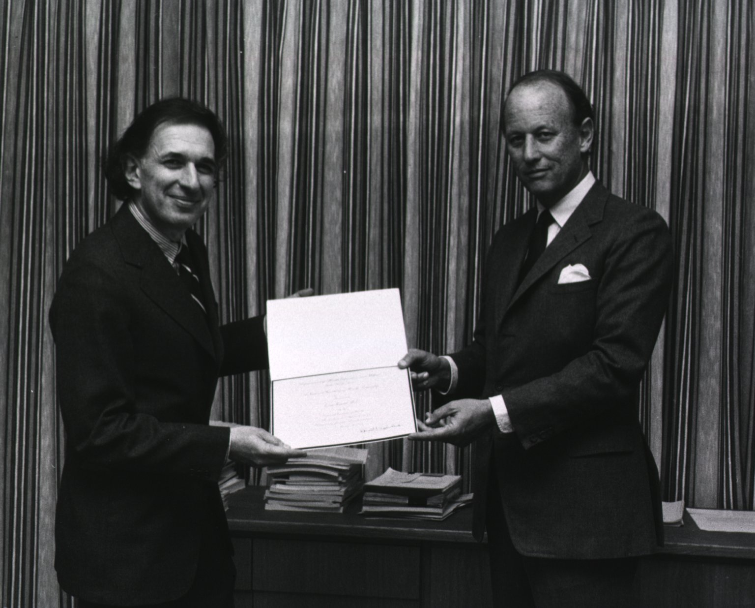 Eric R. Kandel (left), director of the Center for Neurobiology and Behavior at Columbia University, is standing with Donald S. Fredrickson (right), director of the National Institutes of Health (NIH), at Eric Kandel's NIH lecture on cellular insights into behavior and learning